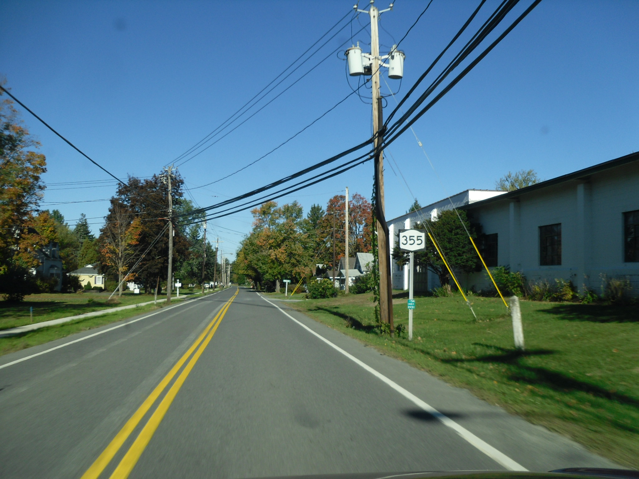 Westbound on New York State Route 355 in the hamlet of Poestenkill. The top line of the reference marker below the NY 355 route marker reads "154" for New York State Route 154, the former designation of this section of NY 355.